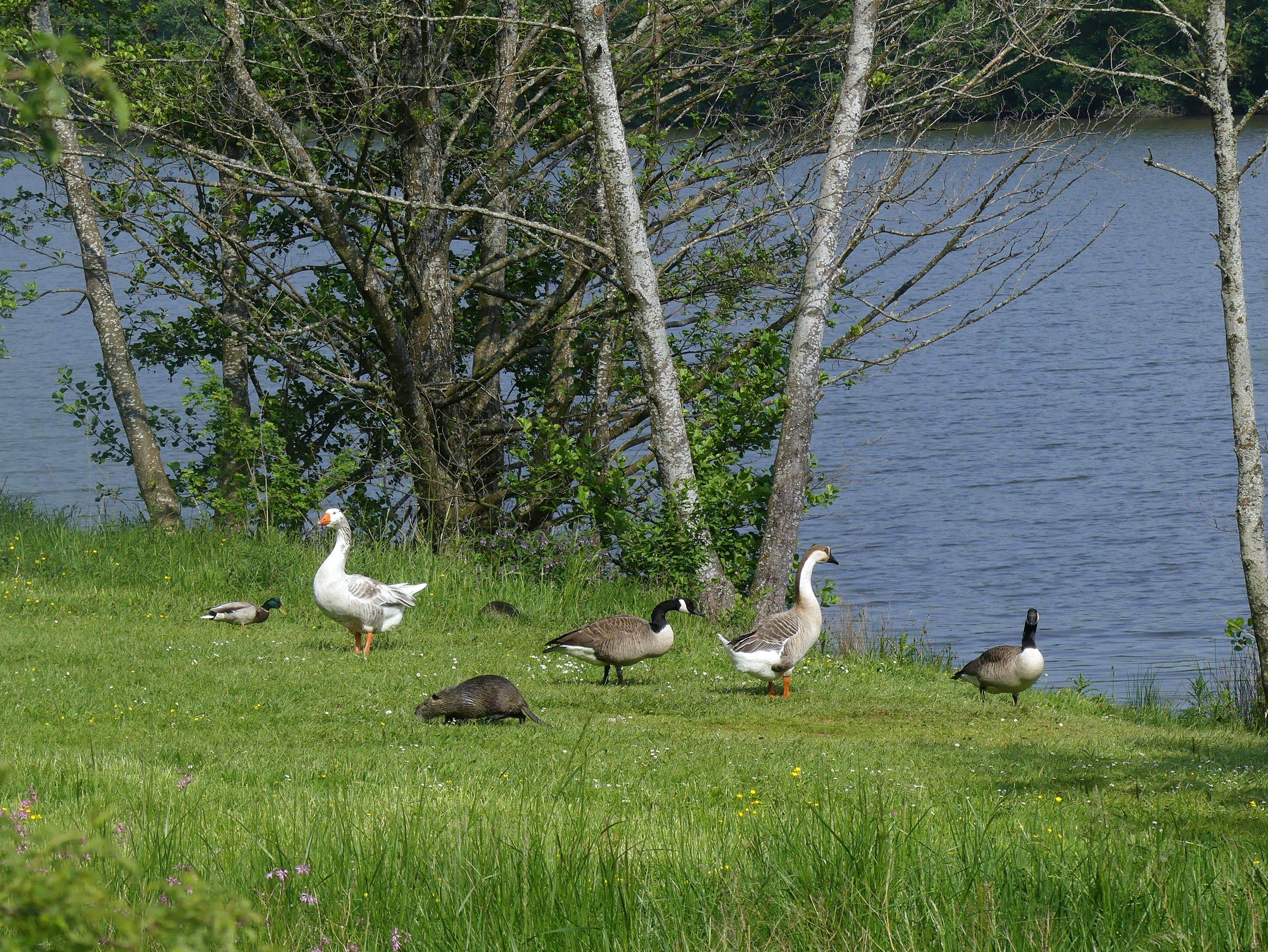 Sight of ducks, geese and coypus eating some food (bread) left by passers on the sides of Wolfartshoffen artificial lake, in Bas-Rhin, Alsace, France.